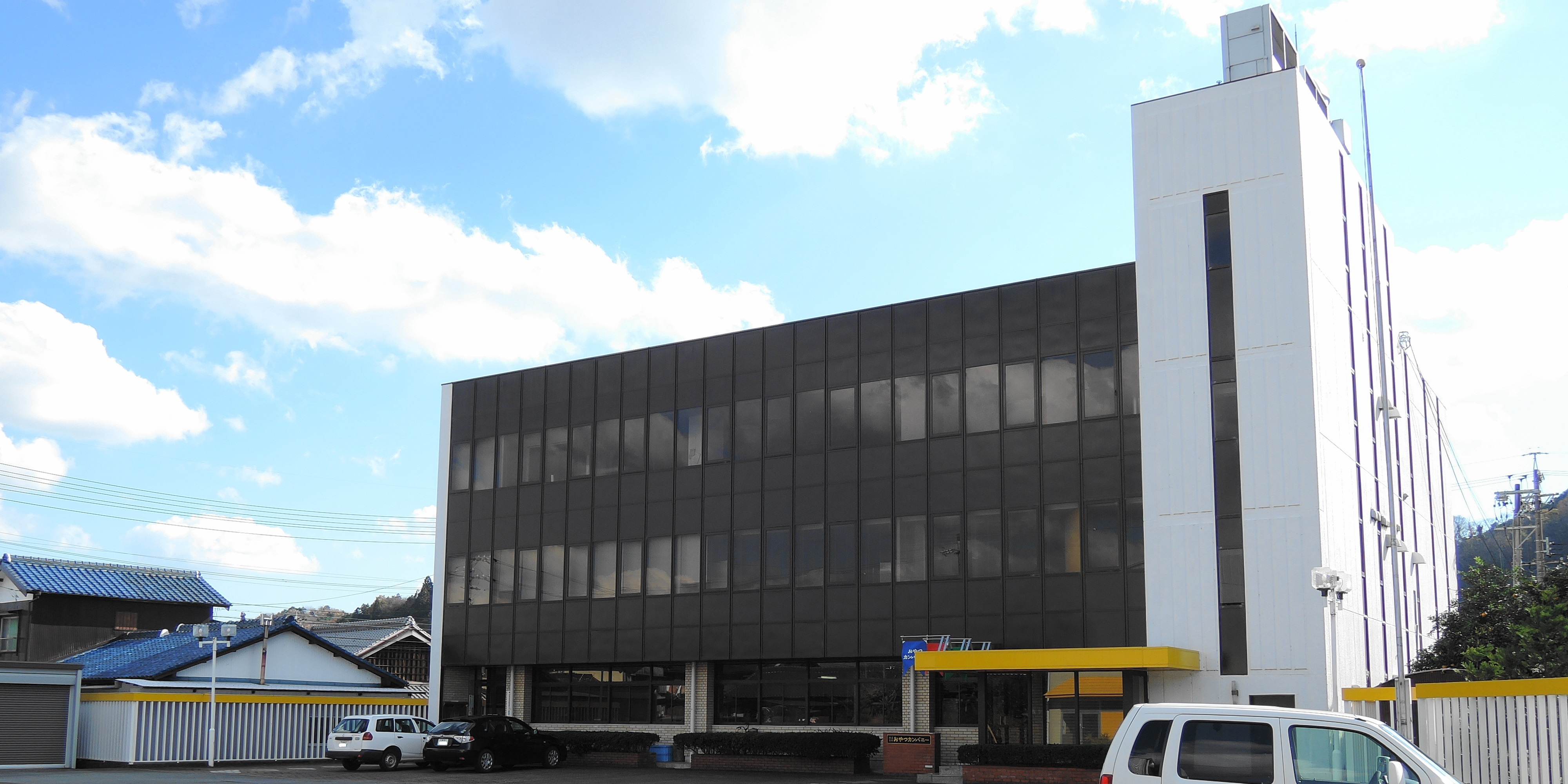 Headquarters of Oyatsu Company Ltd.,Mie prefecture,Japan